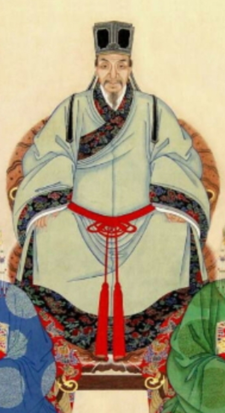 Hu Zong Xian, strategist of the Ming Dynasty.